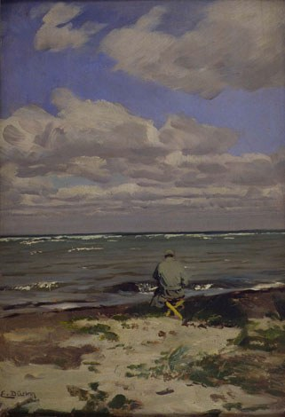 Eugen Gustav Dücker, "Man near sea". Oil on canvas, board. 46.8 x 32 cm